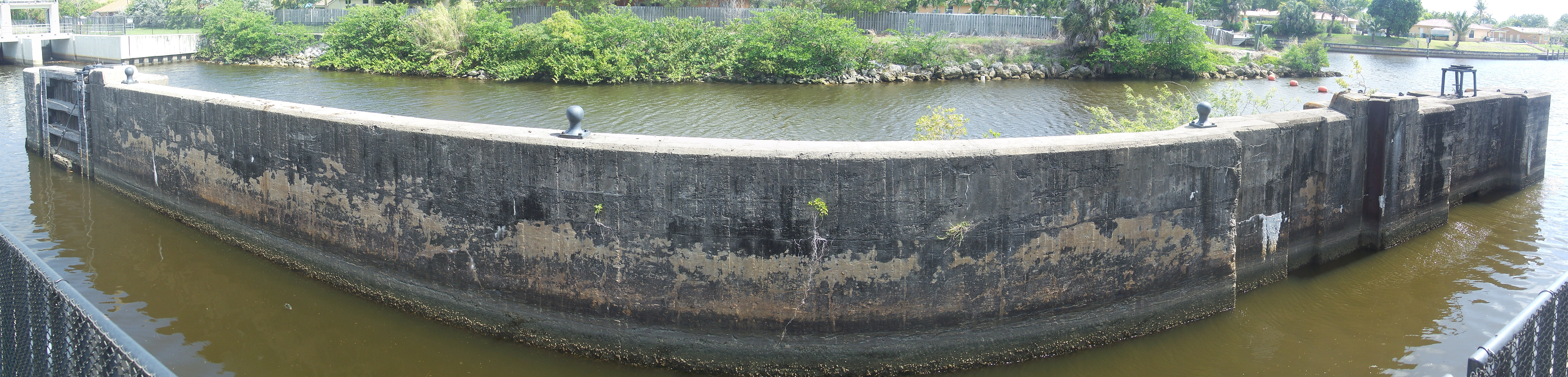 Plantation, Florida: Lock No. 1, North New River Canal